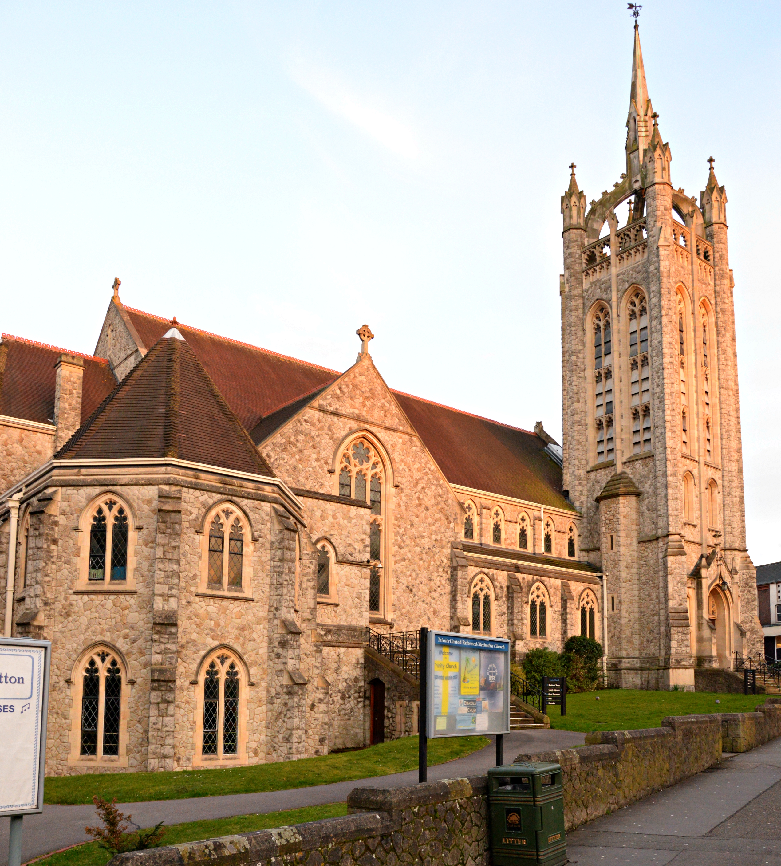 D61_0778 Trinity Church Sutton